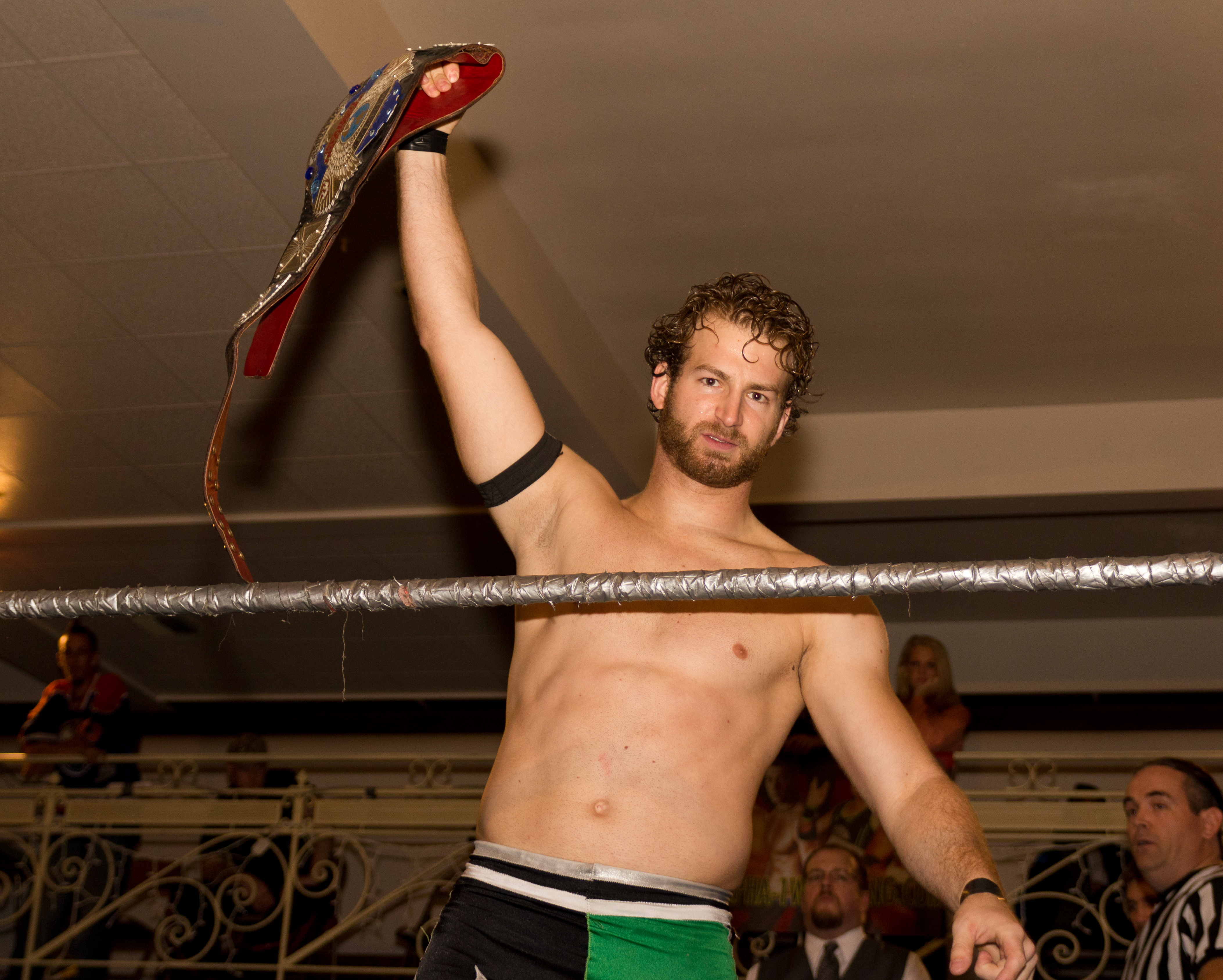 Player Dos/Stupefied (Mark Dionne) as Alpha-1 Wrestling Tag-Team Champion